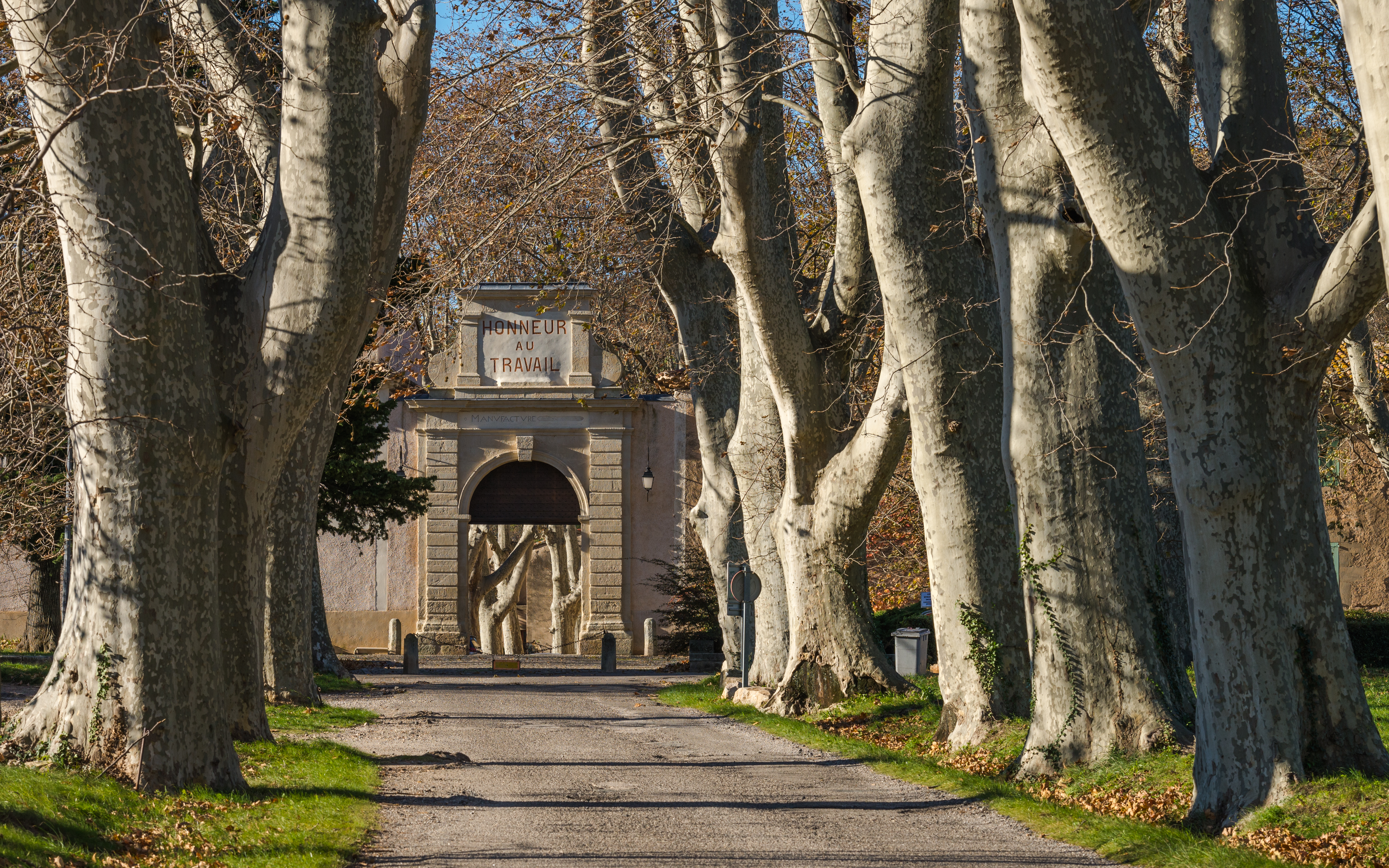 A road lined by Platanus × hispanica (London plane trees) and the Monumental front door of the "Manufacture des draps de Villeneuvette" (1667). Villeneuvette, Hérault, France.